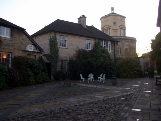 Lankester Quad, Green Templeton College The college came into being in 2008 as a result of a merger between Green College and Templeton College (both named after their benefactors), and occupies the location of the C18 Oxford Observatory seen here in the background at dusk. Some of the buildings date from that period while additions were aimed at being architecturally compatible.